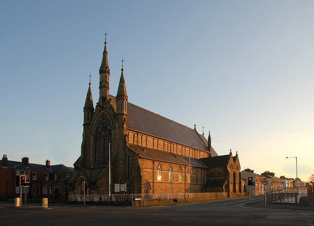 St. Thomas of Canterbury St. Thomas of Canterbury Preston